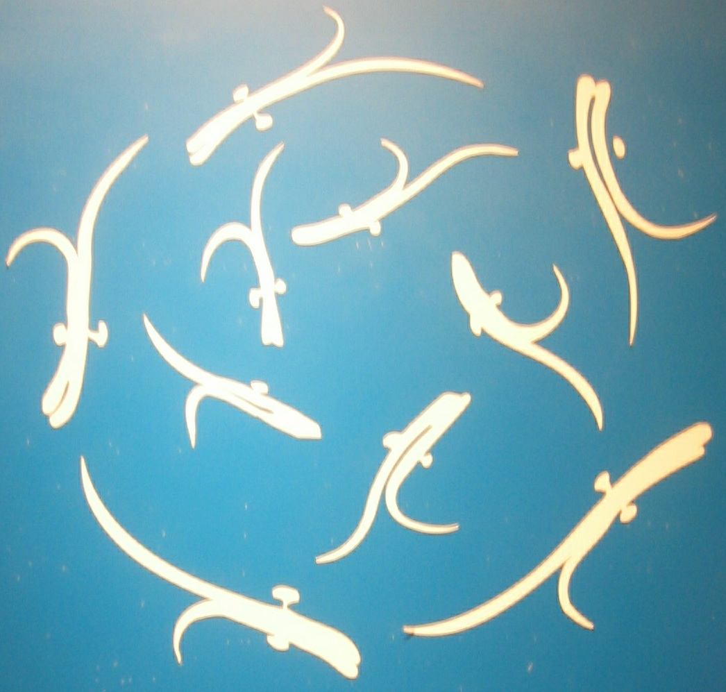 Description: this is an own picture; icon inspired from a Nasrid plate found in Alhambra, Granada, SpainPurpose : al-andalus series of articles, in Wikipédia (FR).Source: Utilisateur:Holycharly Licence: Image licence talk: same situation as the gazelle. Please refer to the Talk page on it. This time, it it not from a nasrid pottery, it is from a plate (same period, same place).